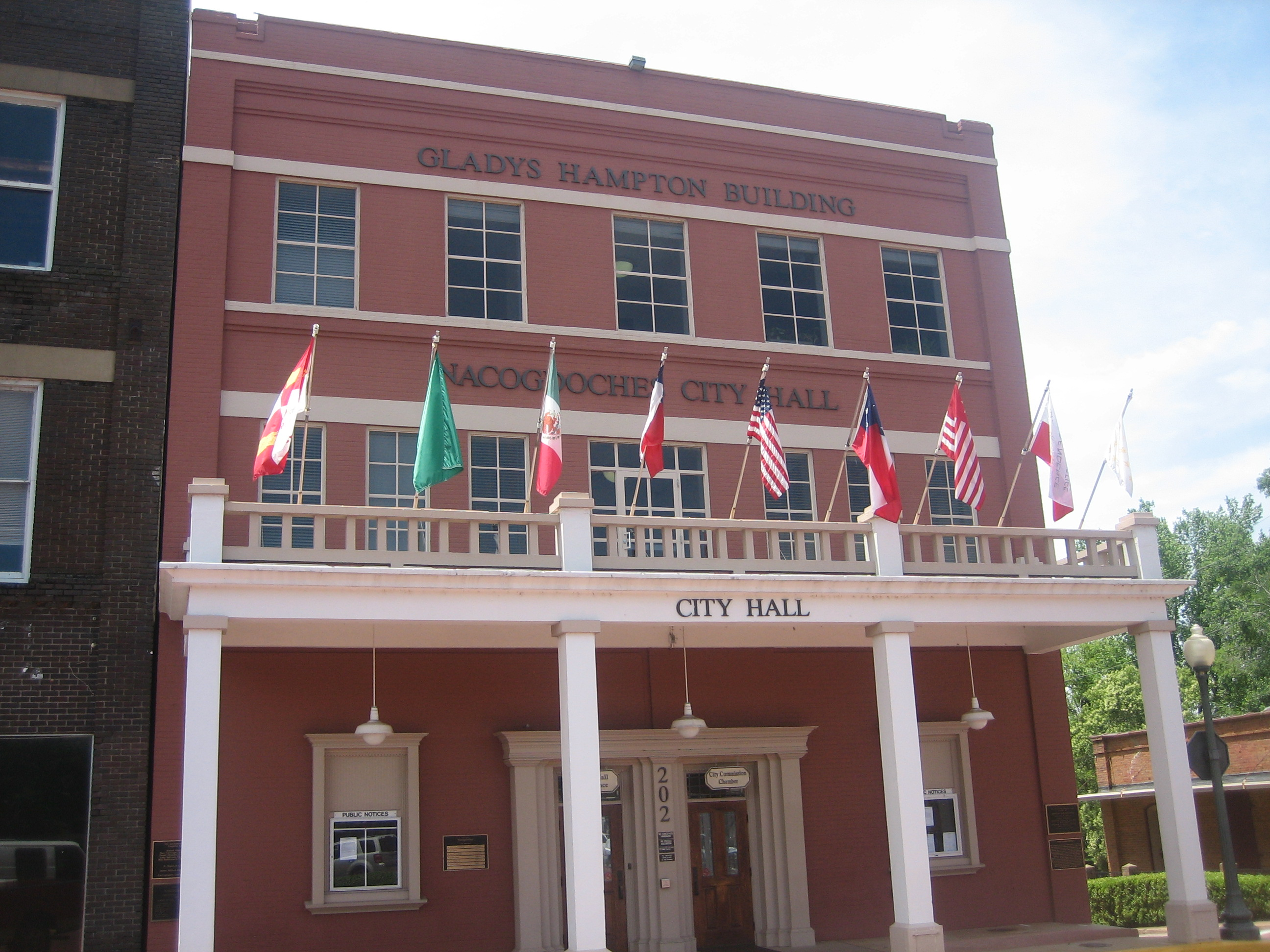 Nacogdoches City Hall, also known as the Gladys Hampton Building in Nacogdoches, Texas.